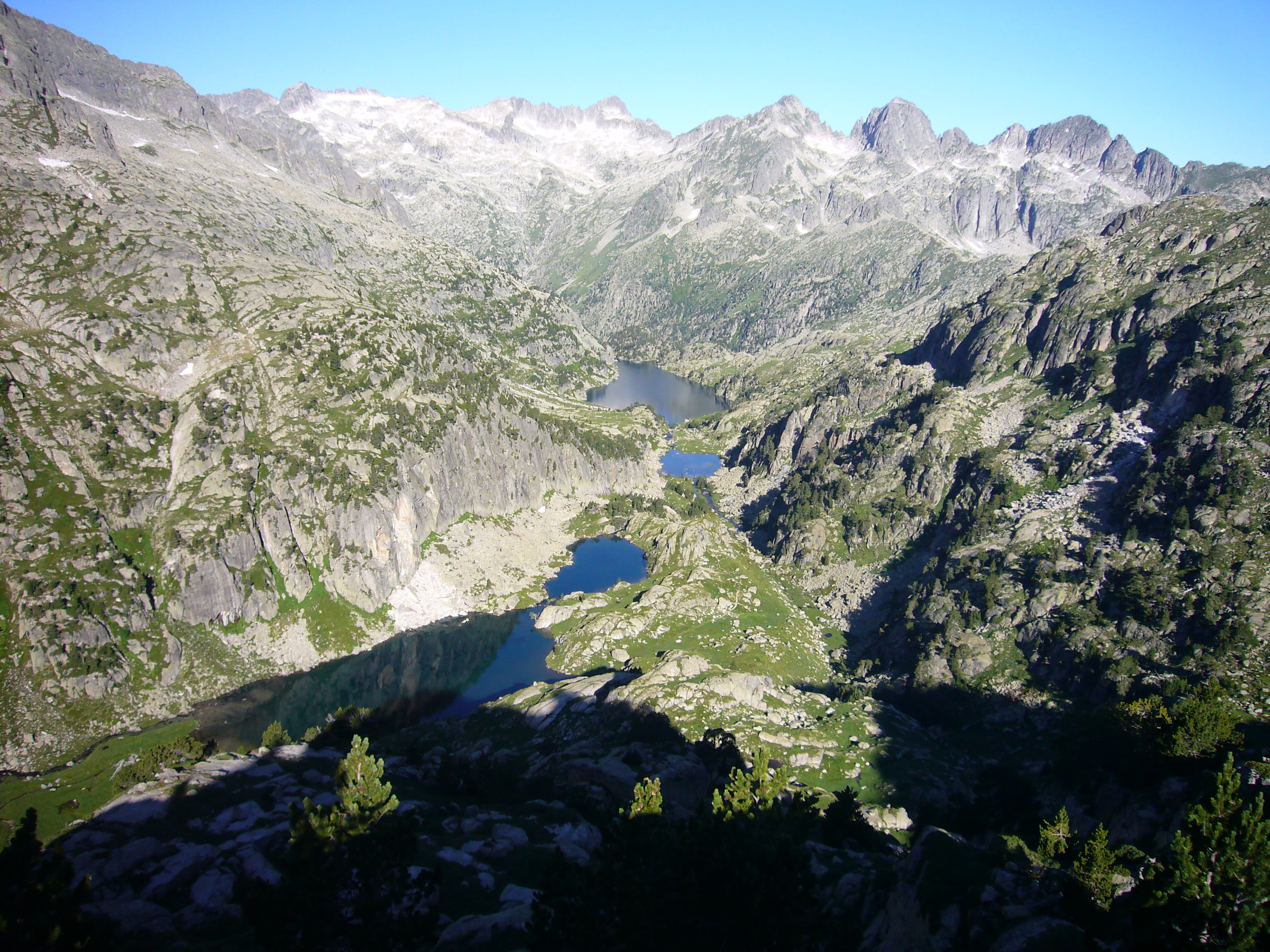 Estanys Negre, de Colieto i Gran de Colieto — lakes of Vall de Colieto in the Pyrenees. In la Vall de Boí, Alta Ribagorça, Catalonia